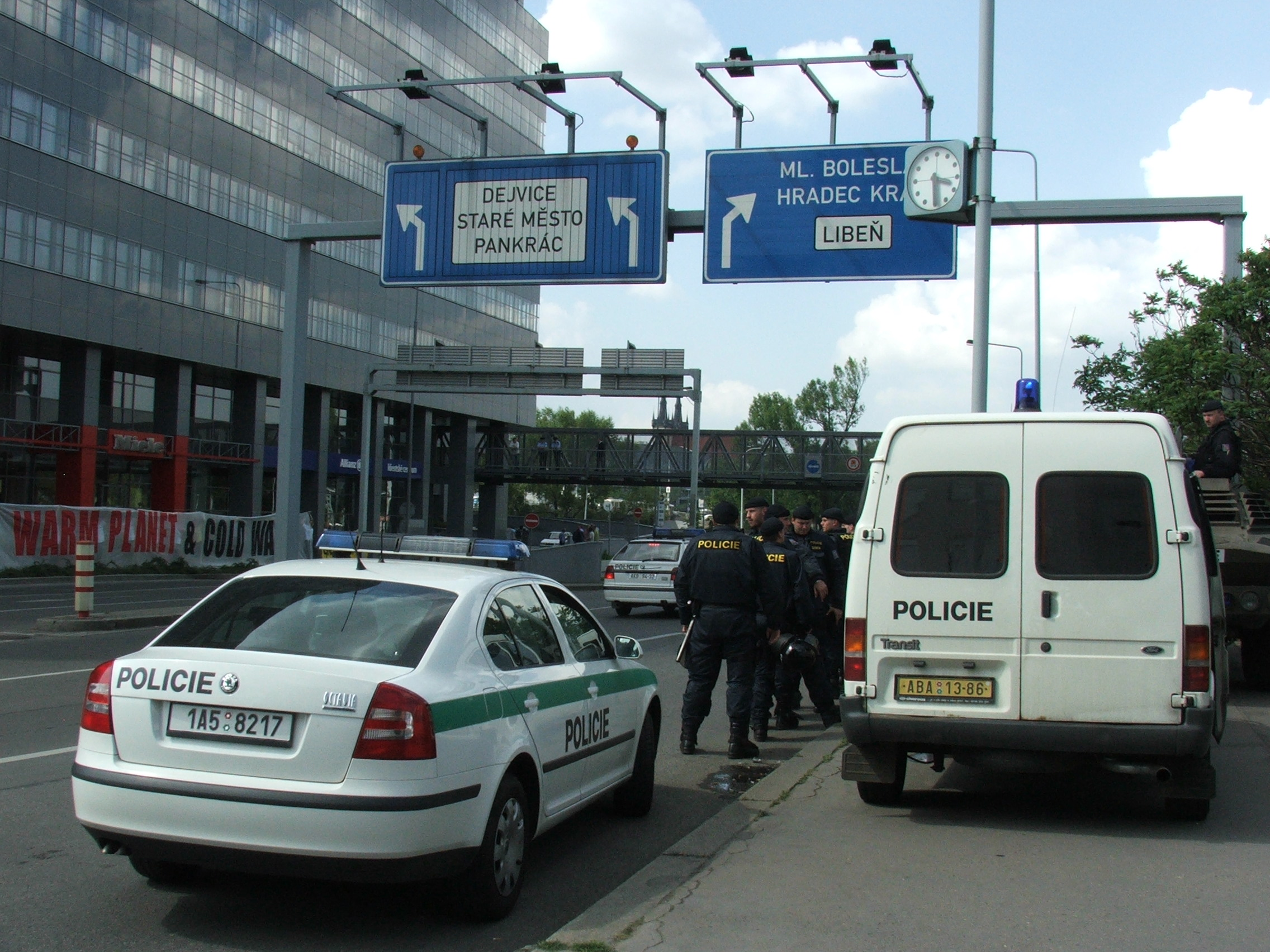 Czech police in front of some Greenpeace protesters during president's Bush visit in Prague